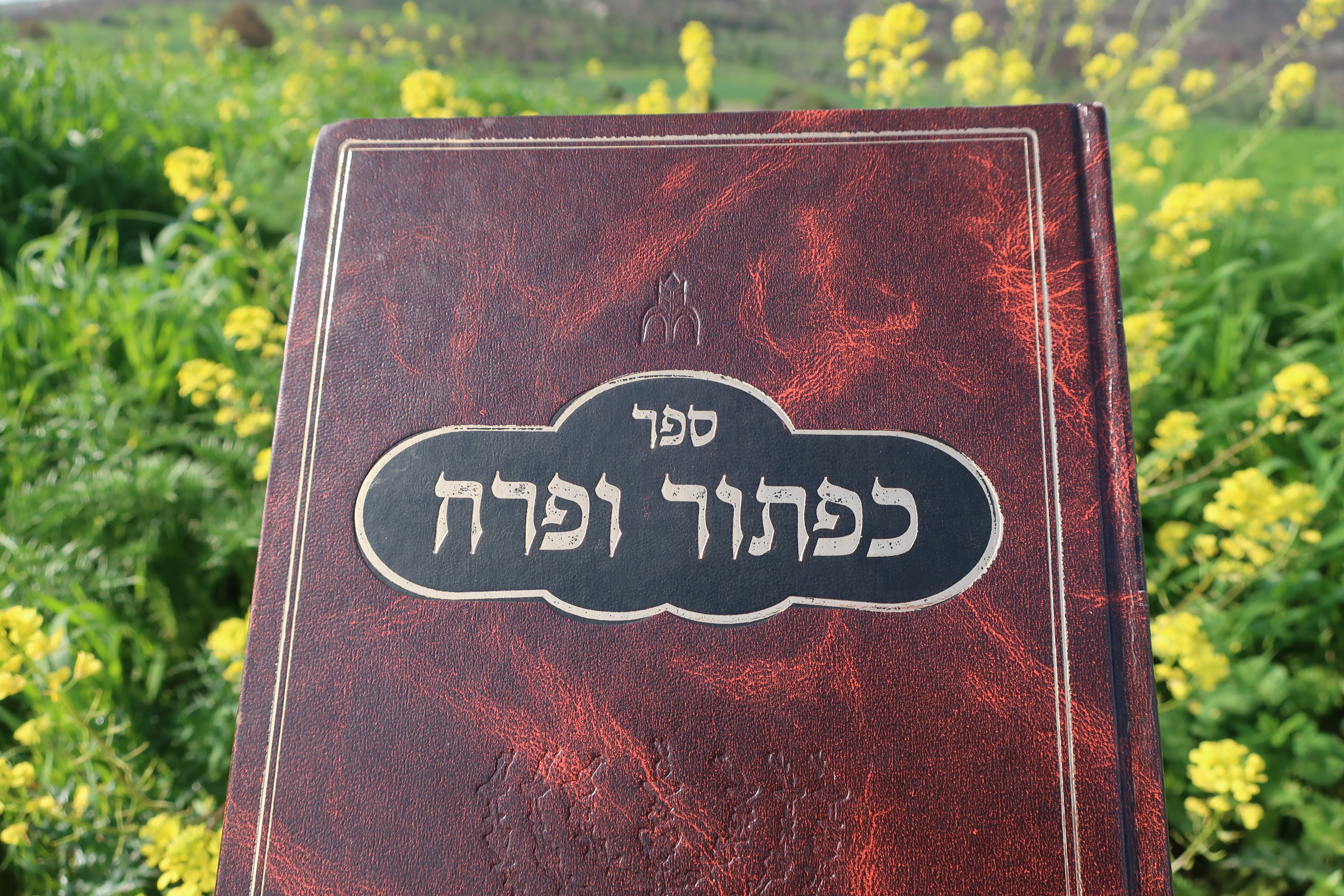 Book cover (Sefer Kaftor ve-Ferach)